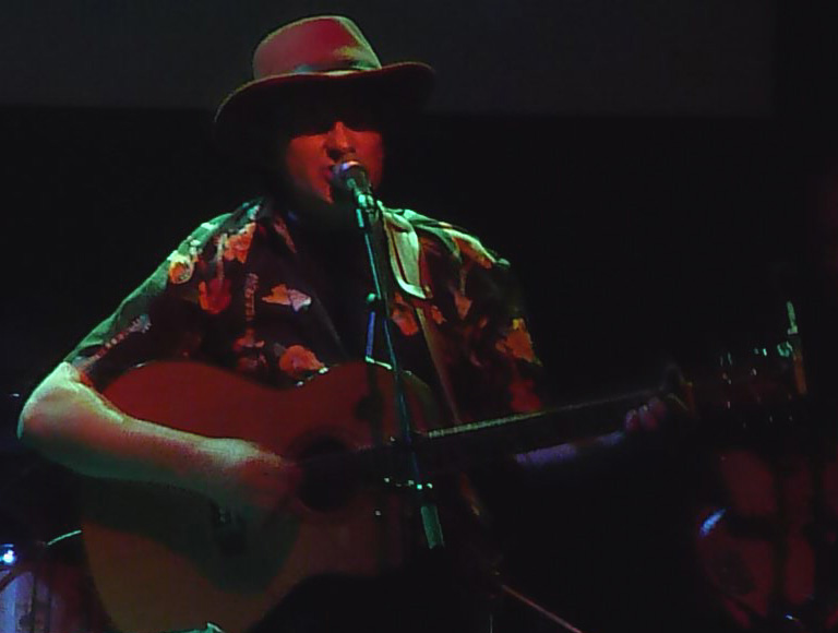 Photograph taken by me of Frankie Lane in Dublin, Ireland, May 2011.